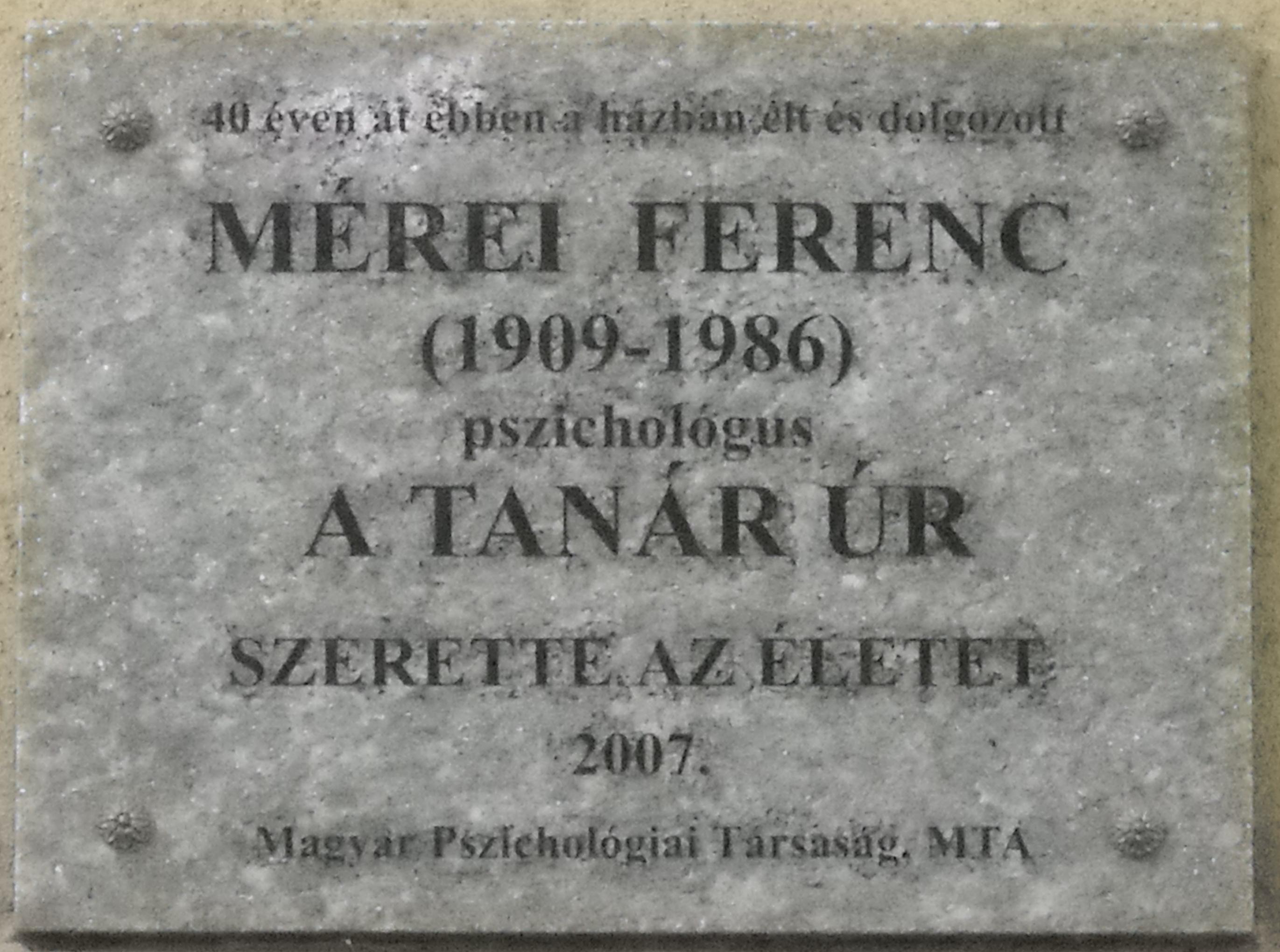 Commemorative plaque of Ferenc Mérei in Budapest District II, Pasaréti Street No 36